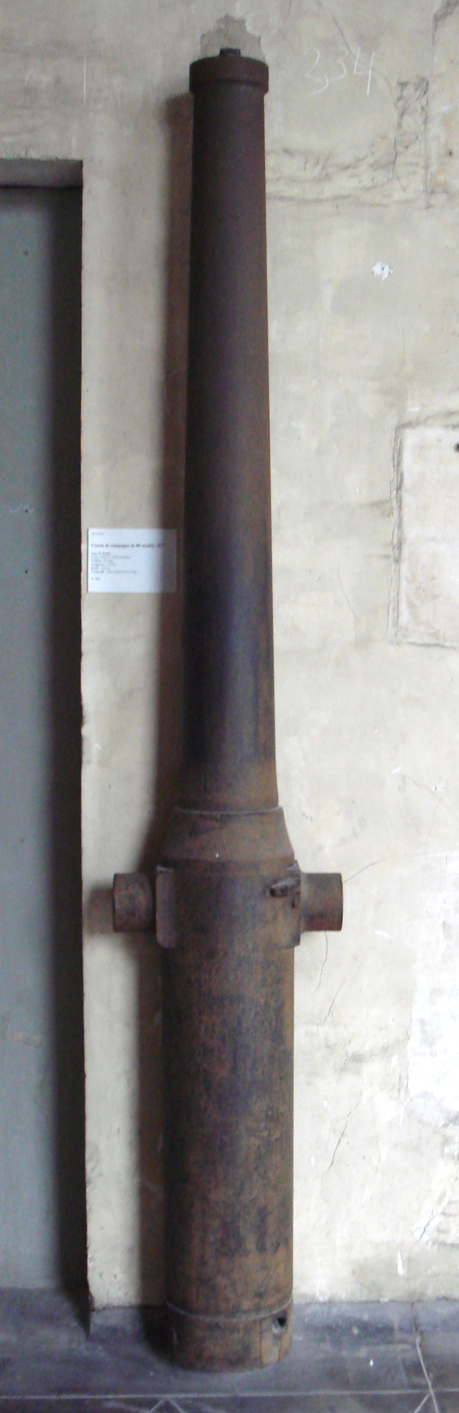 De_Bange_80mm_Mle_1877